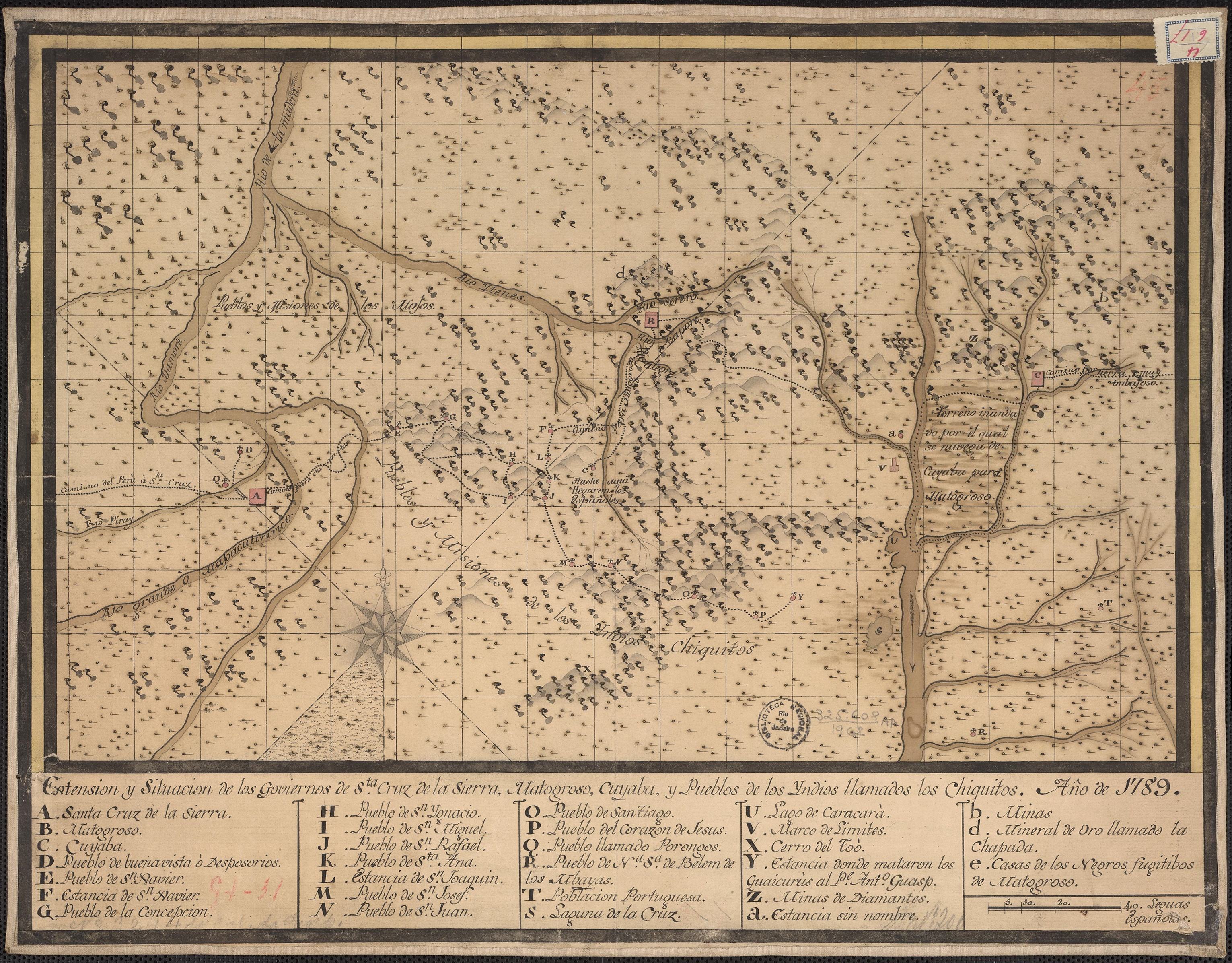 Map of Chiquitanía from 1789.